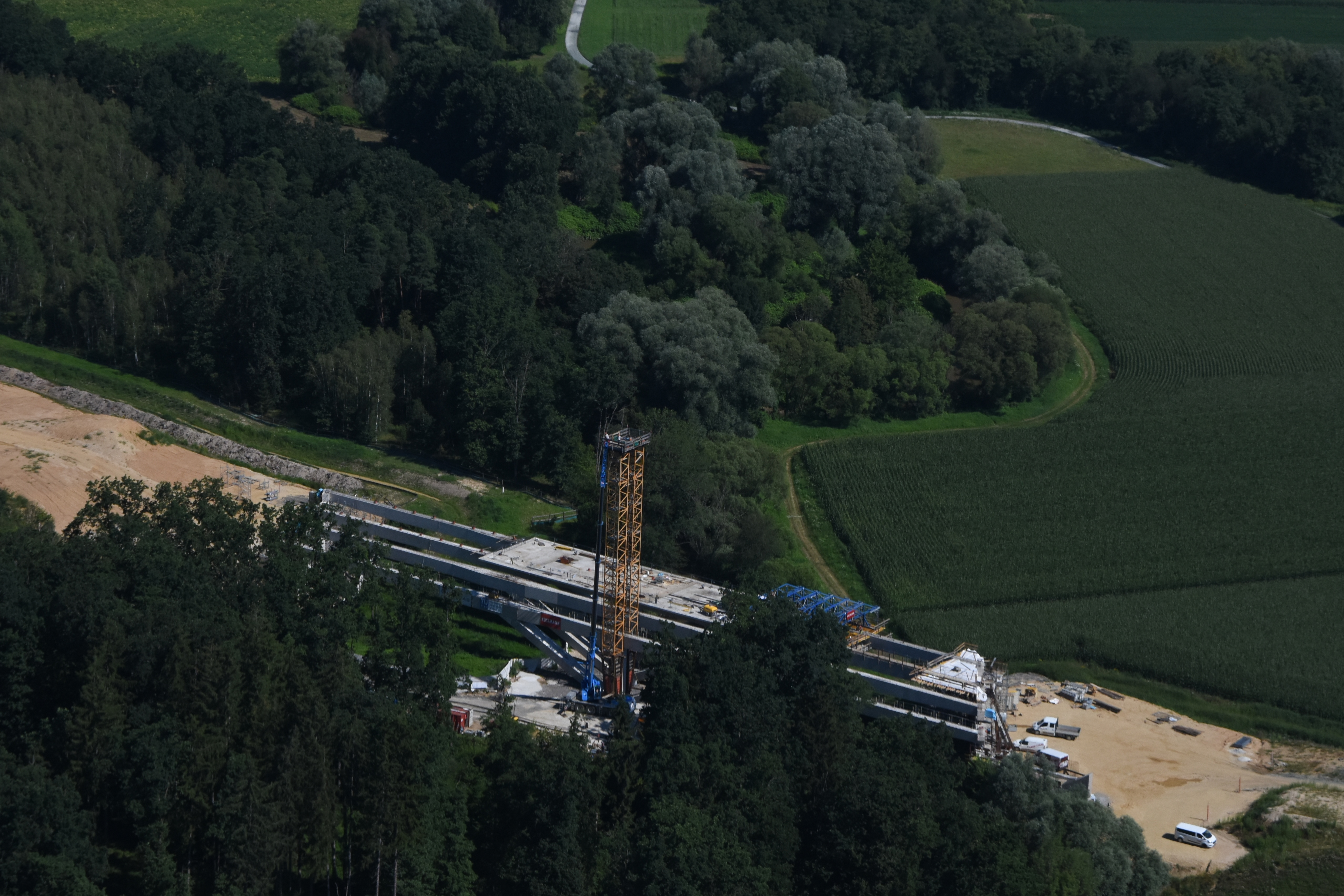 Aerial photographs Fürstenfelder Schnellstraße S7 Styria Burgenland